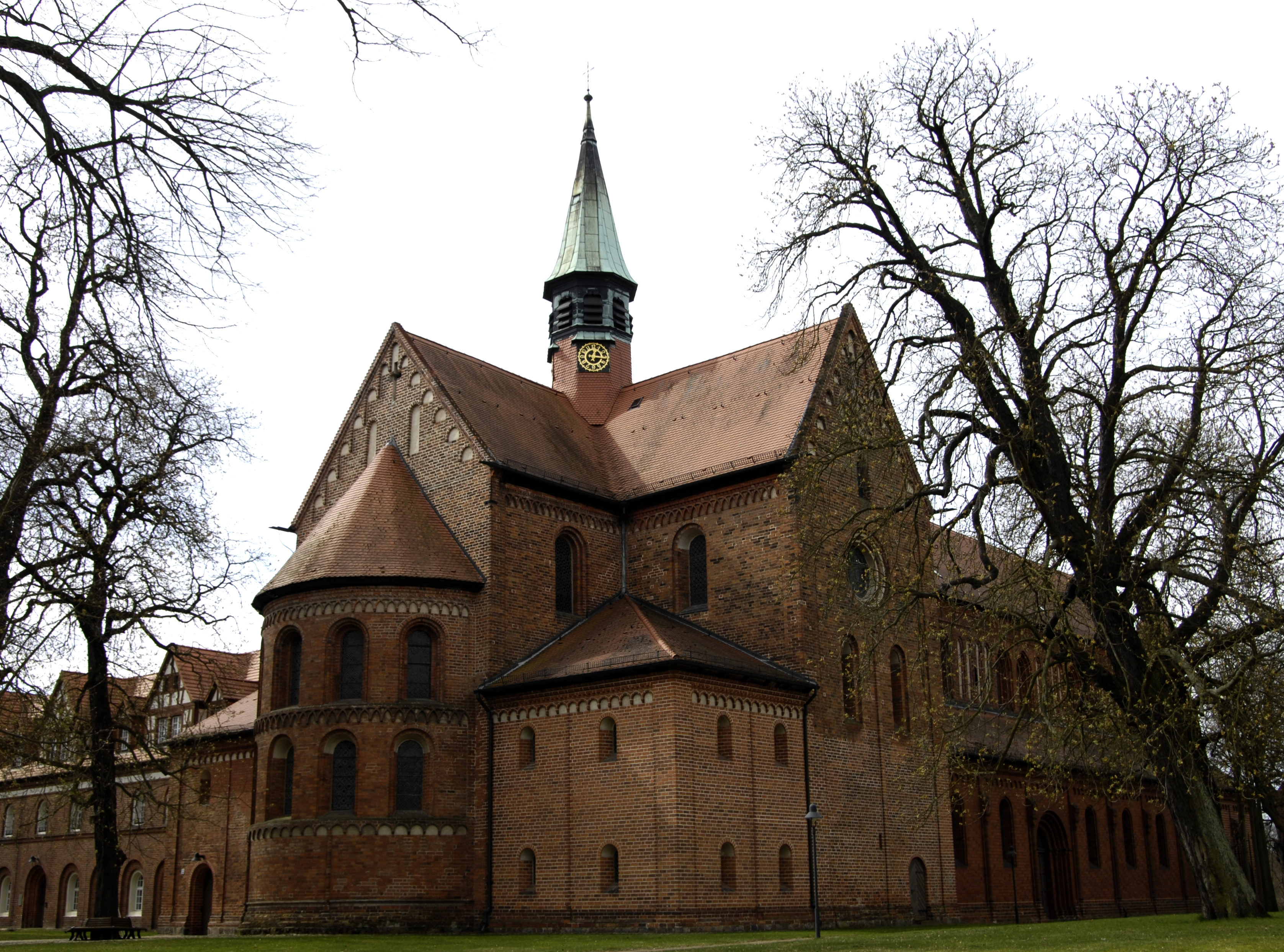 Apse and rear facades of St. Marien church — of the Kloster Lehnin (Lehnin abbey). A German Brick Gothic era monastary in Landkreis Potsdam-Mittelmark, Brandenburg, northeast Germany.